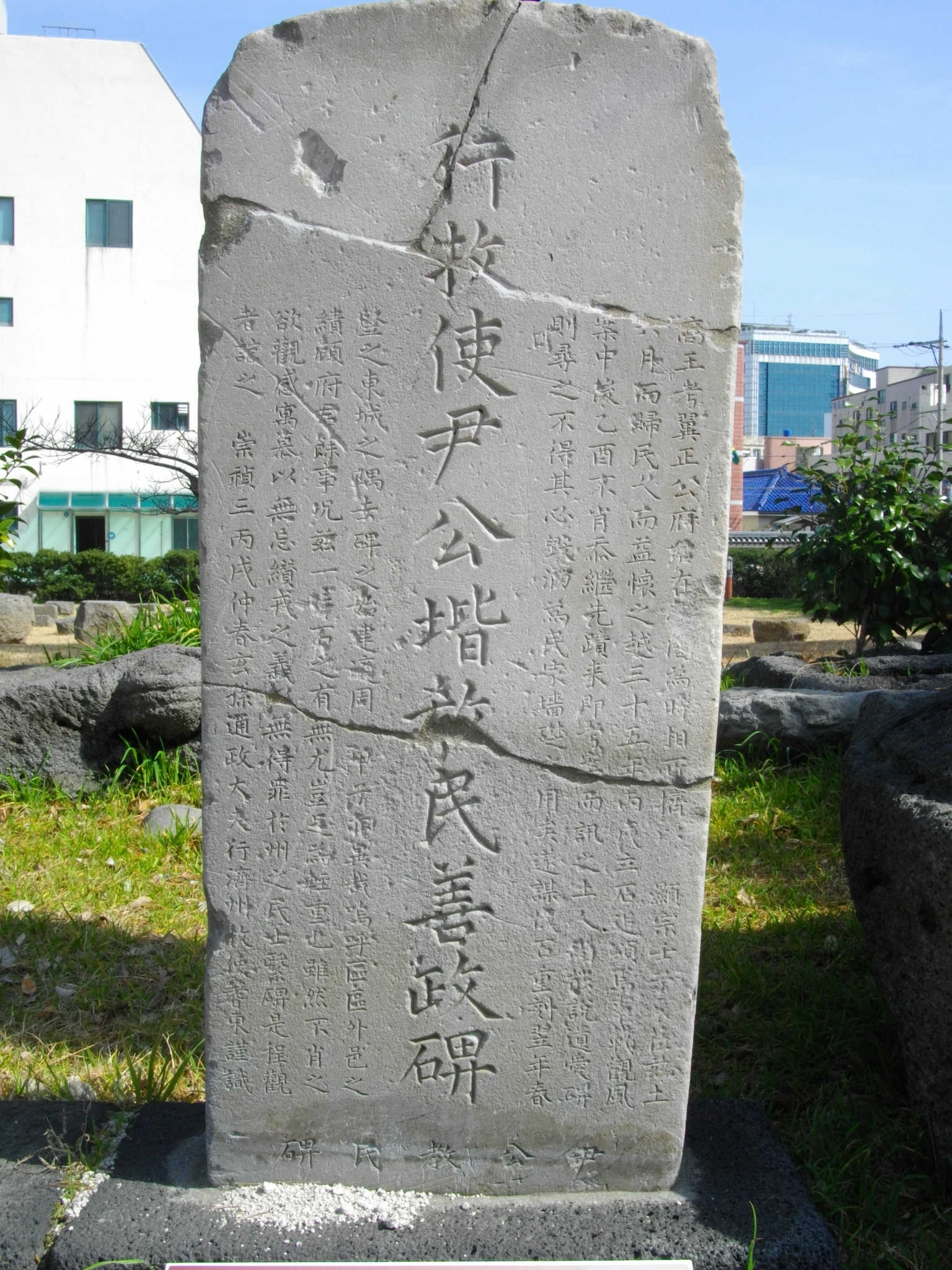 Monument to the service of Yoon Kye